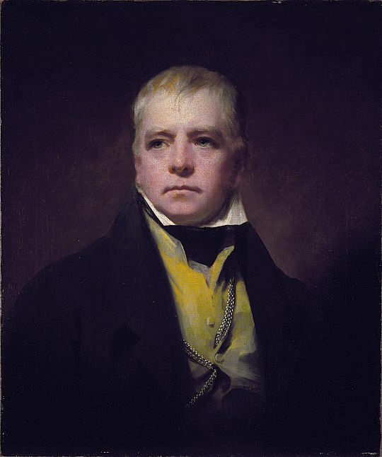 Portrait of Walter Scott (1771 - 1832), novelist and poet.